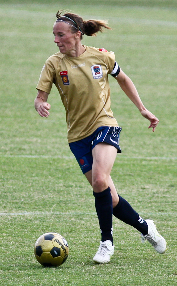 Joanne Peters playing for the Newcastle United Jets in the Australian W-League football competition.